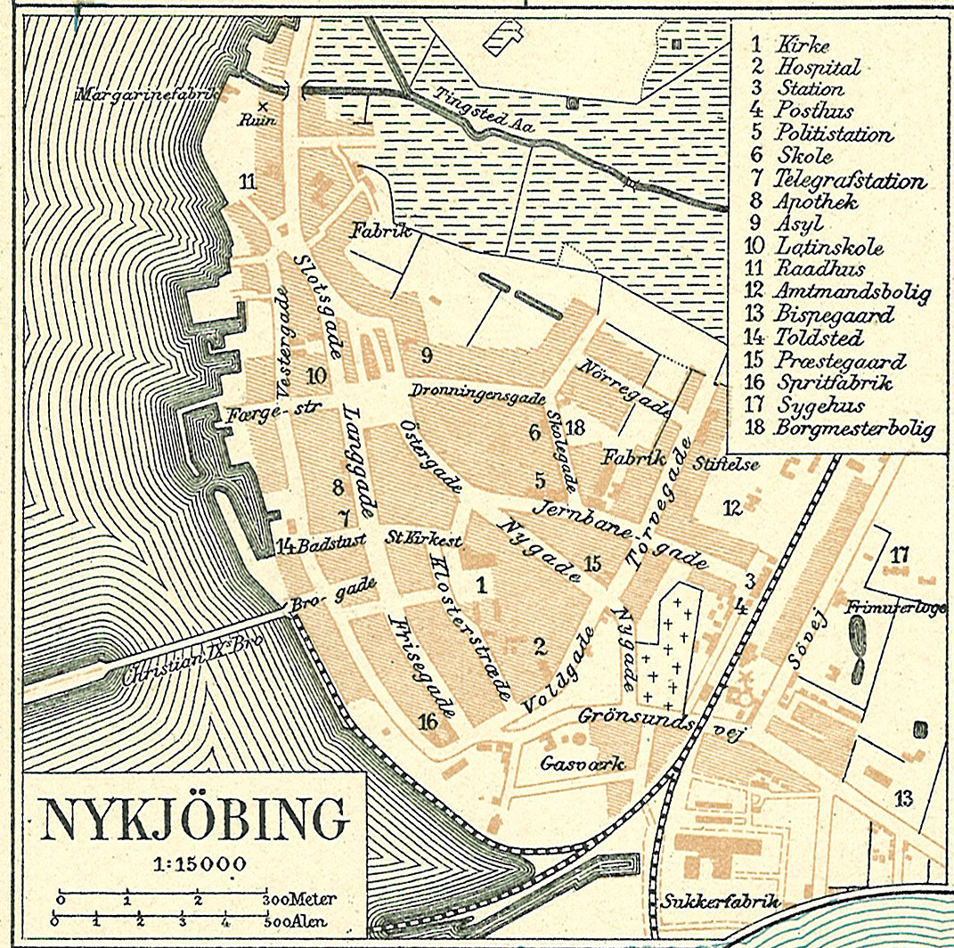 Map of Nykøbing on Falster in Denmark